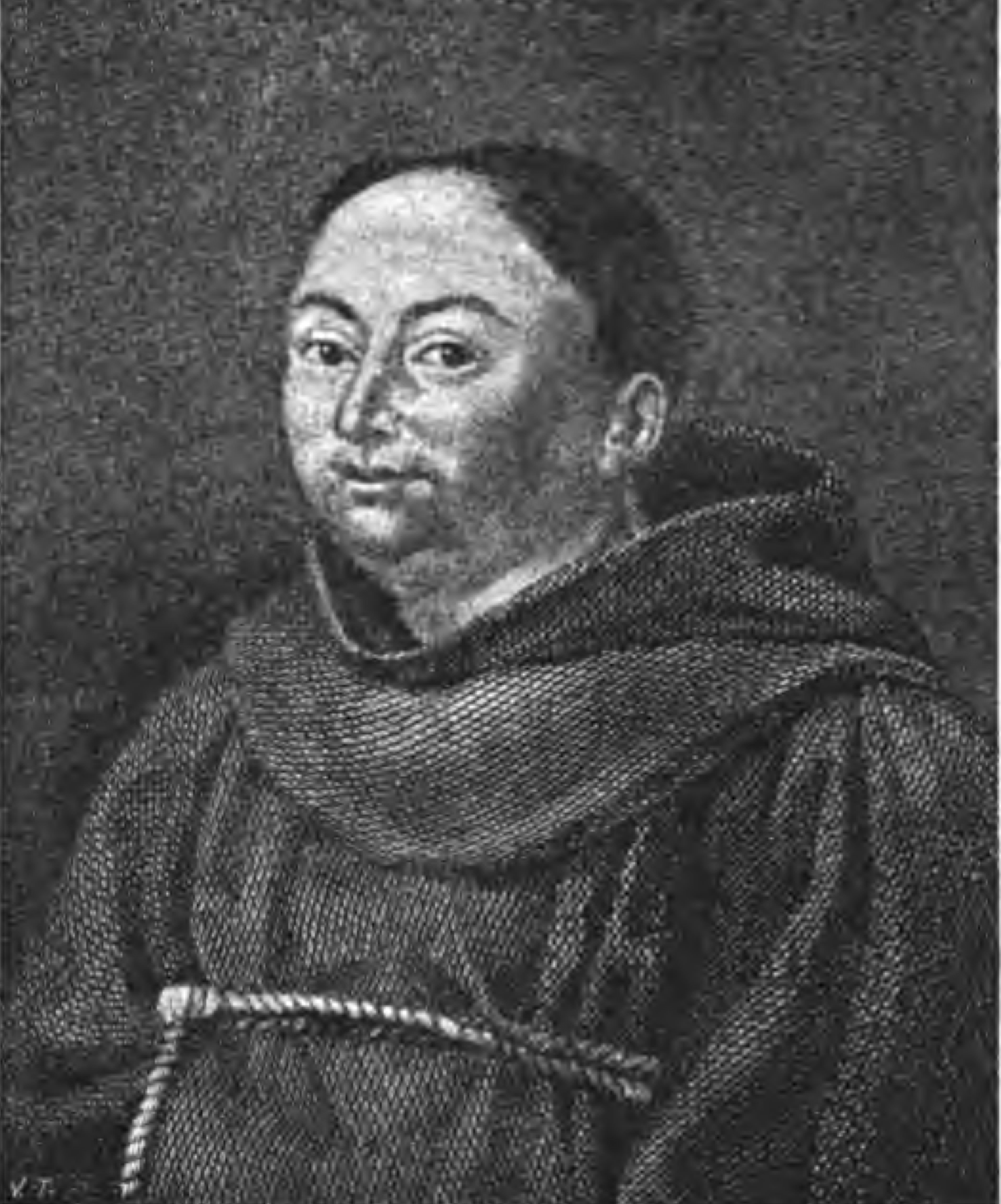 image from "Rivista italiana di numismatica 1890.djvu p. 147 (../156) portrait of Ireneo Affò